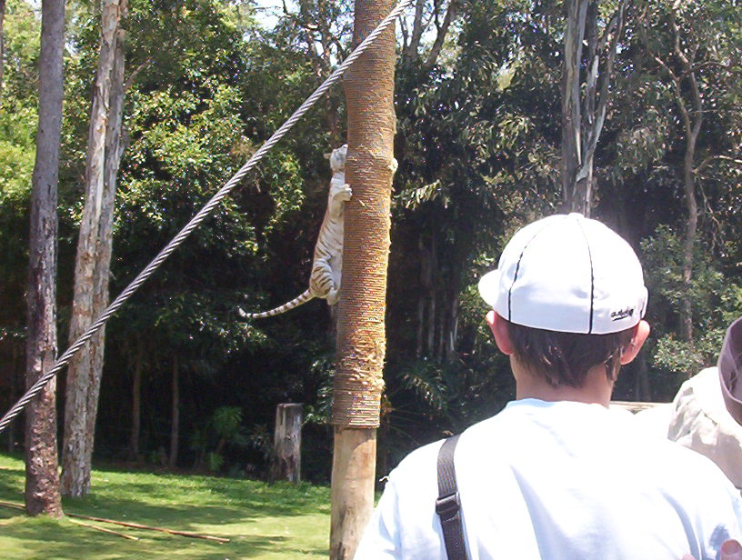 Taken by me whilst visiting the park in 2006.